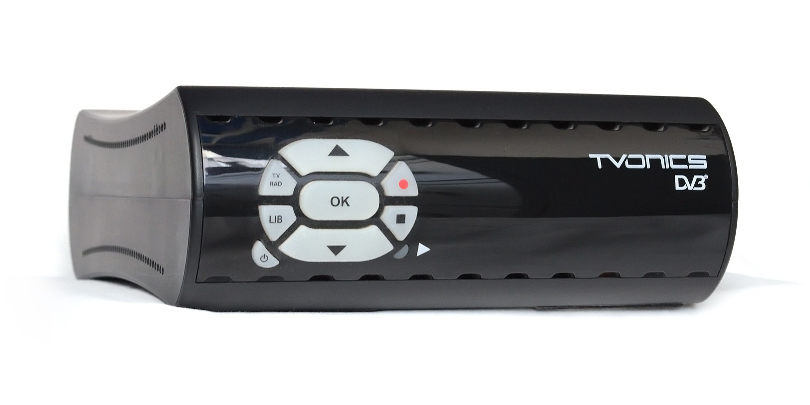 TVonics DTR-FP2500 digital video recorder with 250 GB hard drive (front). Bought around mid to late 2008.